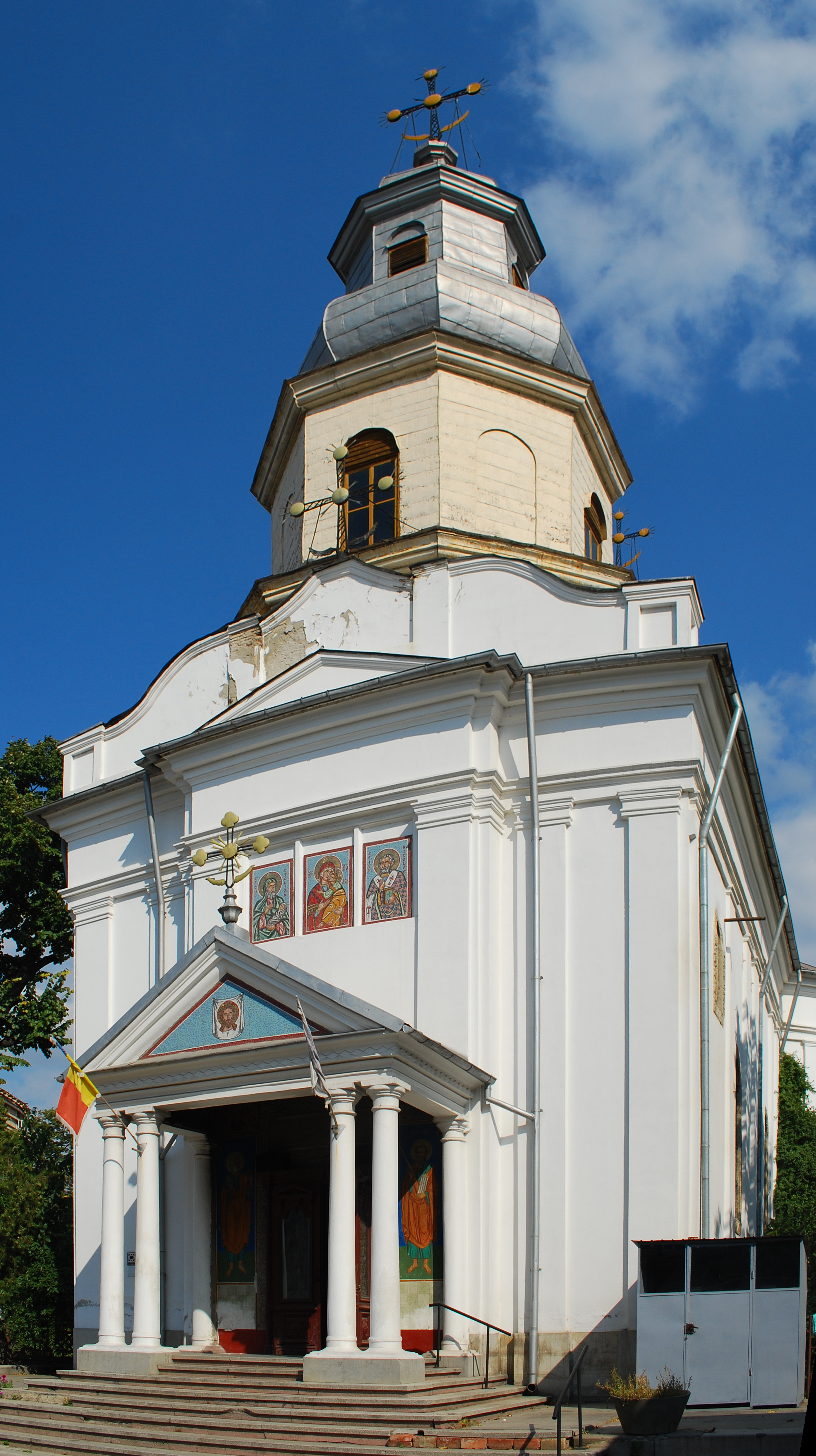 Lucaci church in Bucharest, RomaniaRomână: Biserica Sfinţii Stelian şi Nicolae (Lucaci) din Bucureşti, România